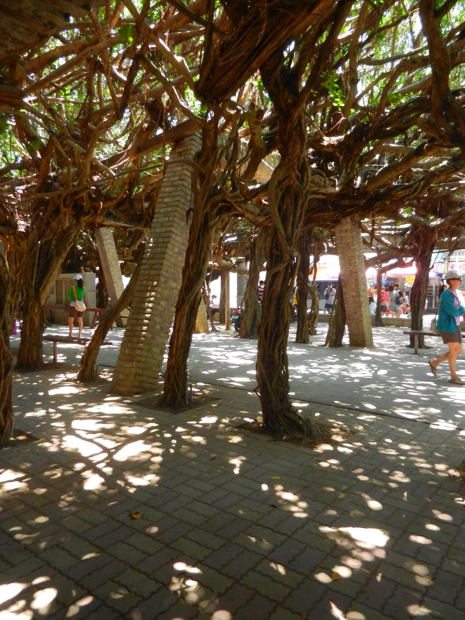 The Tongliang Great Banyan. the oldest and largest tree in Penghu. 通樑古榕